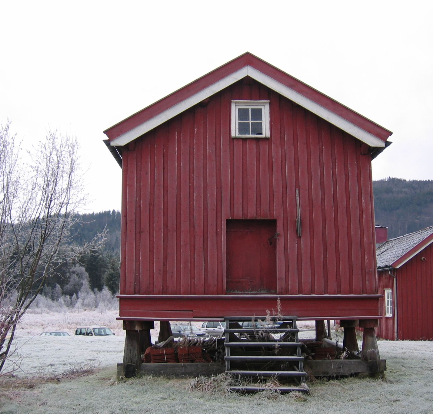 Stabbur, store house on a Norwegian farm.